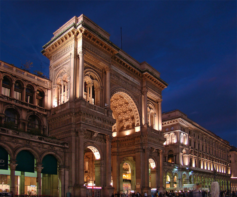 Galleria Vittorio Emanuele II, Milan, Lombardy, Italy. South façade with its triumphal arch opening onto the Piazza del Duomo.